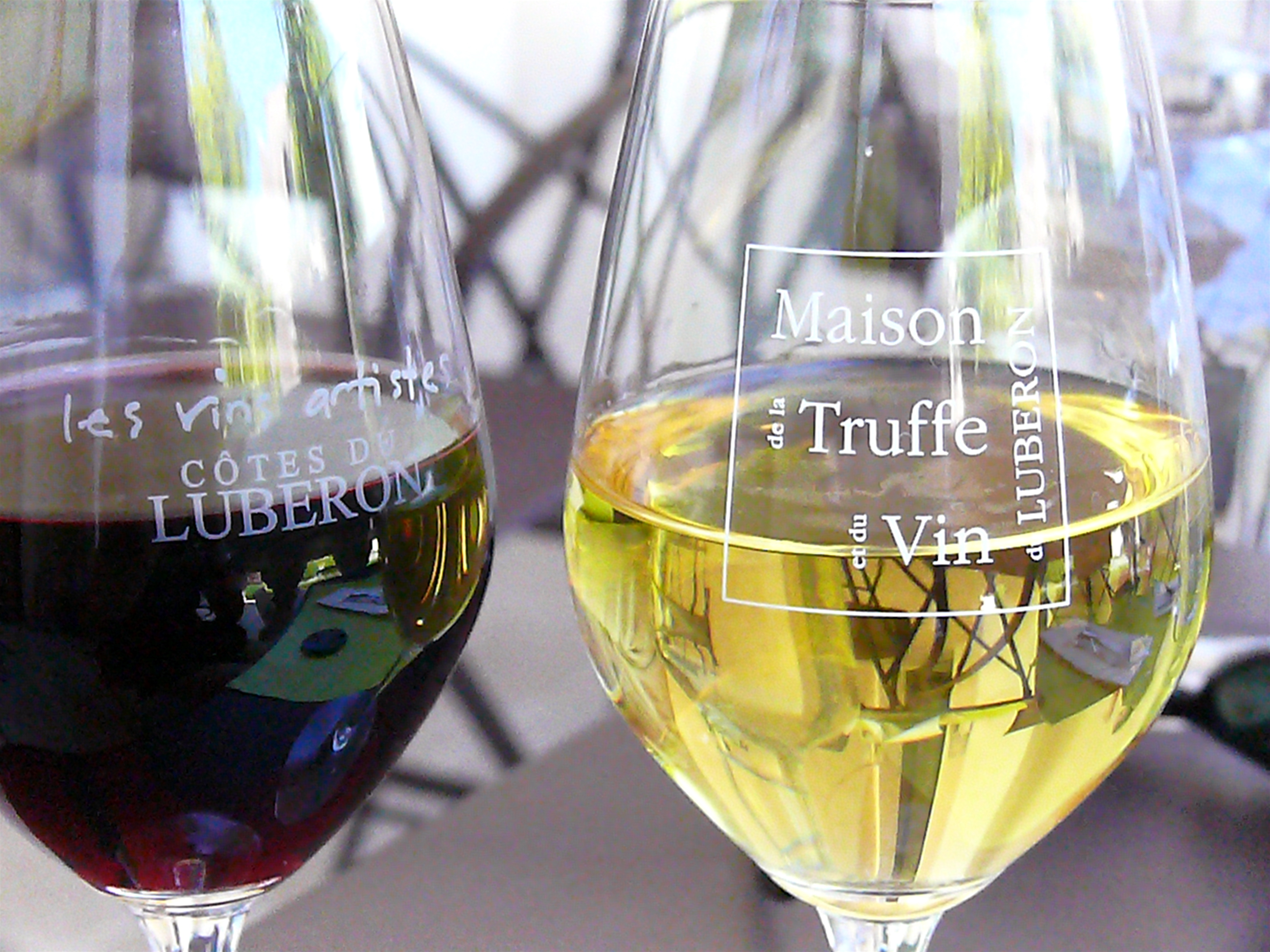 Luberon AOC Ménerbes